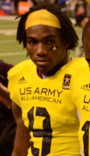 The U.S. Army All-American Bowl was held at the Alamodome in San Antonio on Jan. 5, 2013. The U.S. Army All-American Bowl is sponsored by the U.S. Army. (U.S. Army Reserve photo by Pfc. Victor Blanco, 205th Public Affairs Operations Center)